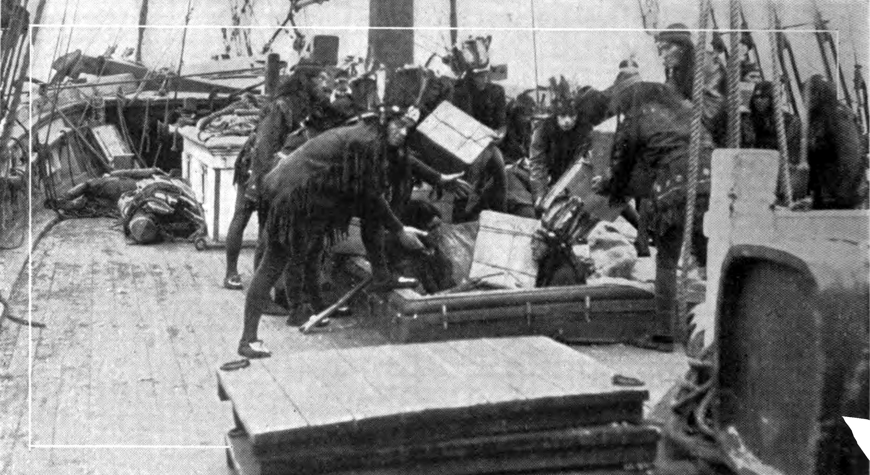 A scene from The Boston Tea Party (1915), showing Colonists disguised as Native Americans removing tea from the hold of a ship.